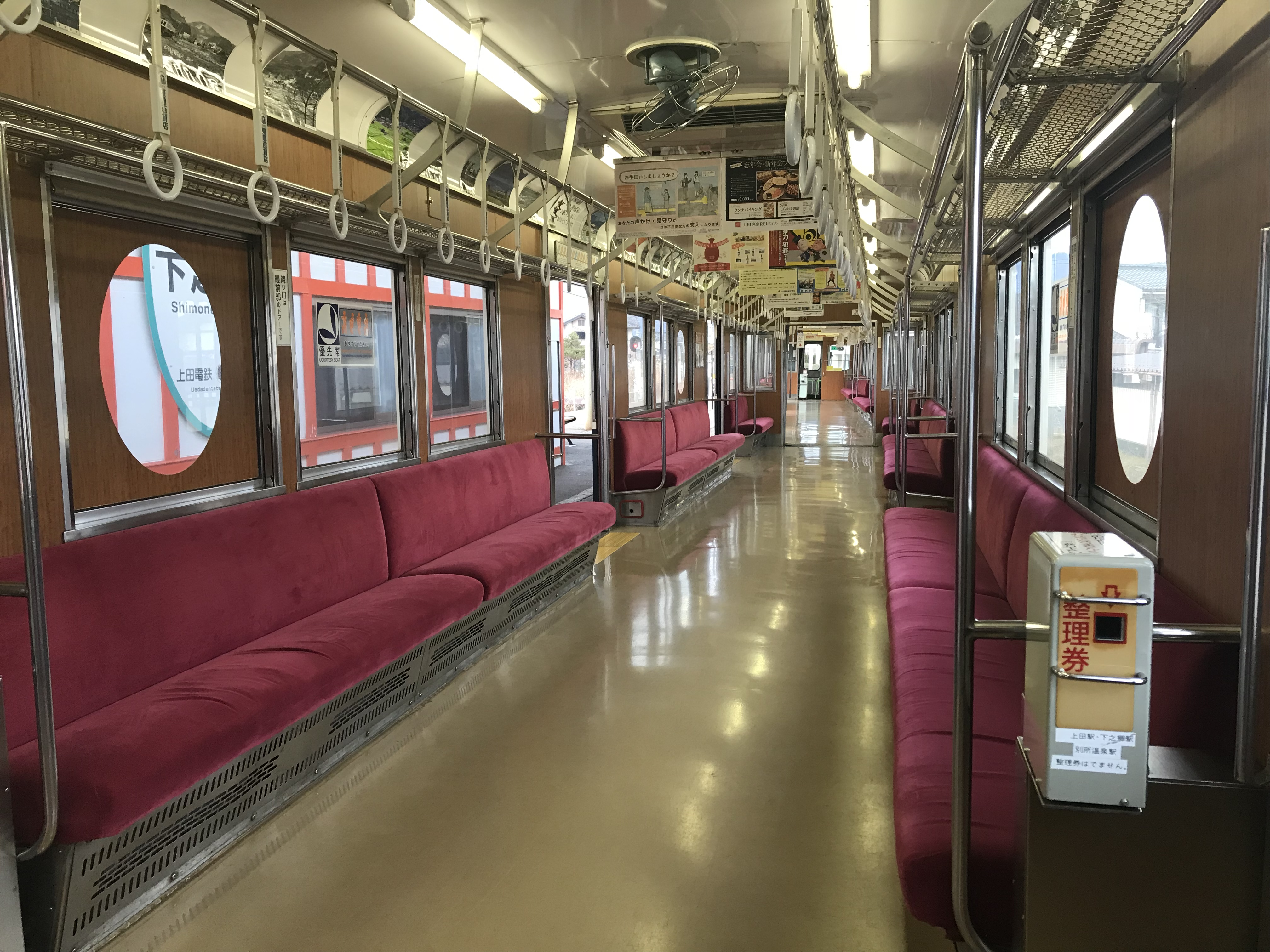 The interior of an Ueda Electric Railway 7200 series EMU at Shimonogo Station in Nagano Prefecture, Japan